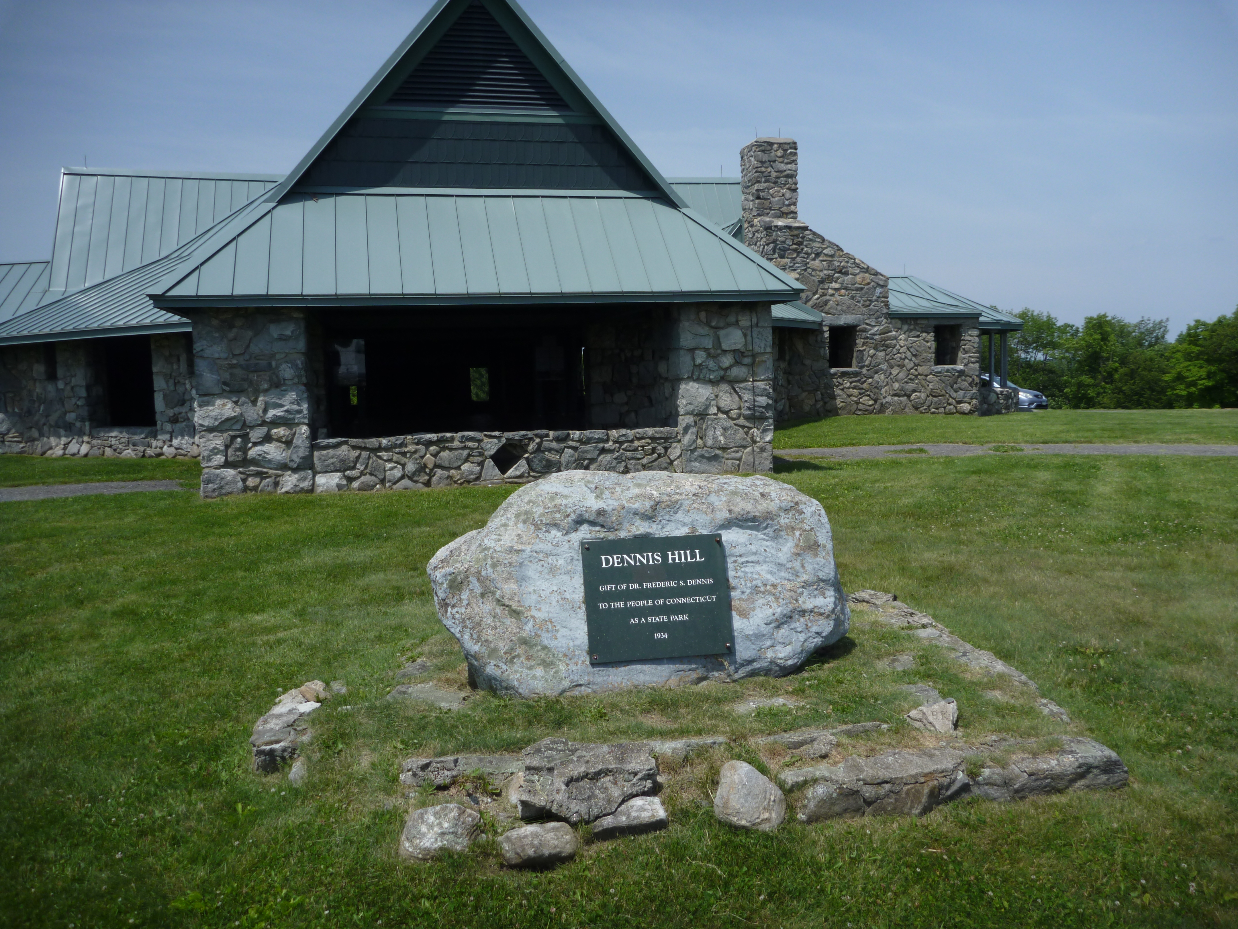 Tamarack Lodge Bungalow, South of Norfolk off CT 272 at Dennis Hill Park Norfolk